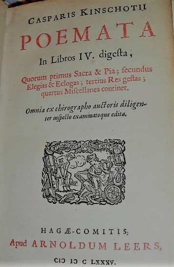 Poems of Caspar van Kinschot (Caspar Kinschotius), printed in the Hague, 1685